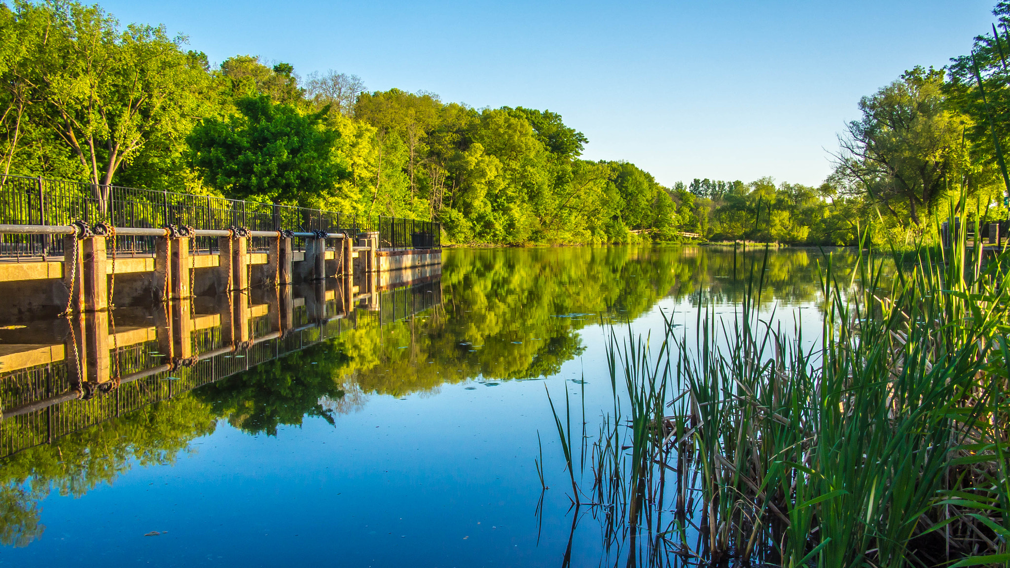 500px provided description: Early morning picture taken at the Rockford dam [#trees ,#spring ,#water ,#colors ,#landscapes ,#michigan ,#Kent County ,#Courtland Township]